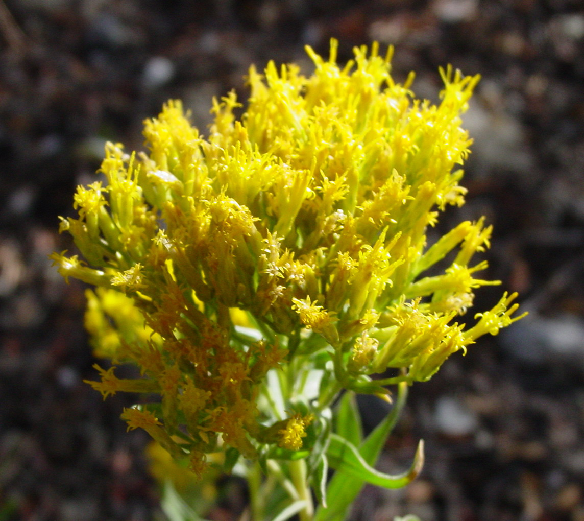 Chrysothamnus viscidiflorus. City of Rocks National Preserve, Idaho, USA.